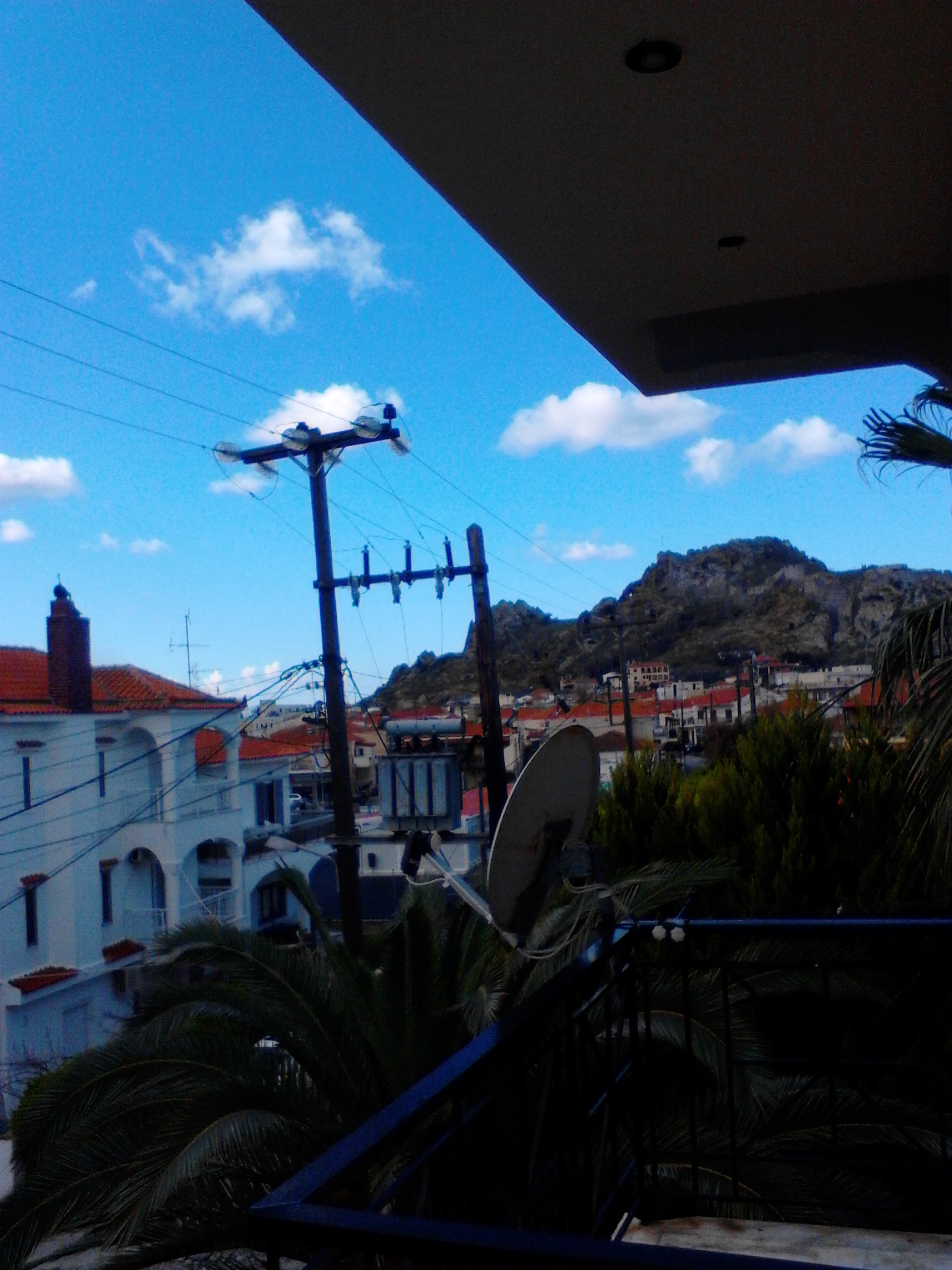 Myrina castle as seen from my balcony